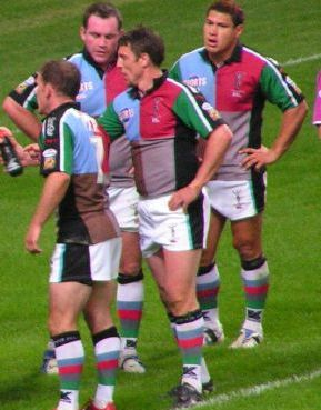 Heckenberg